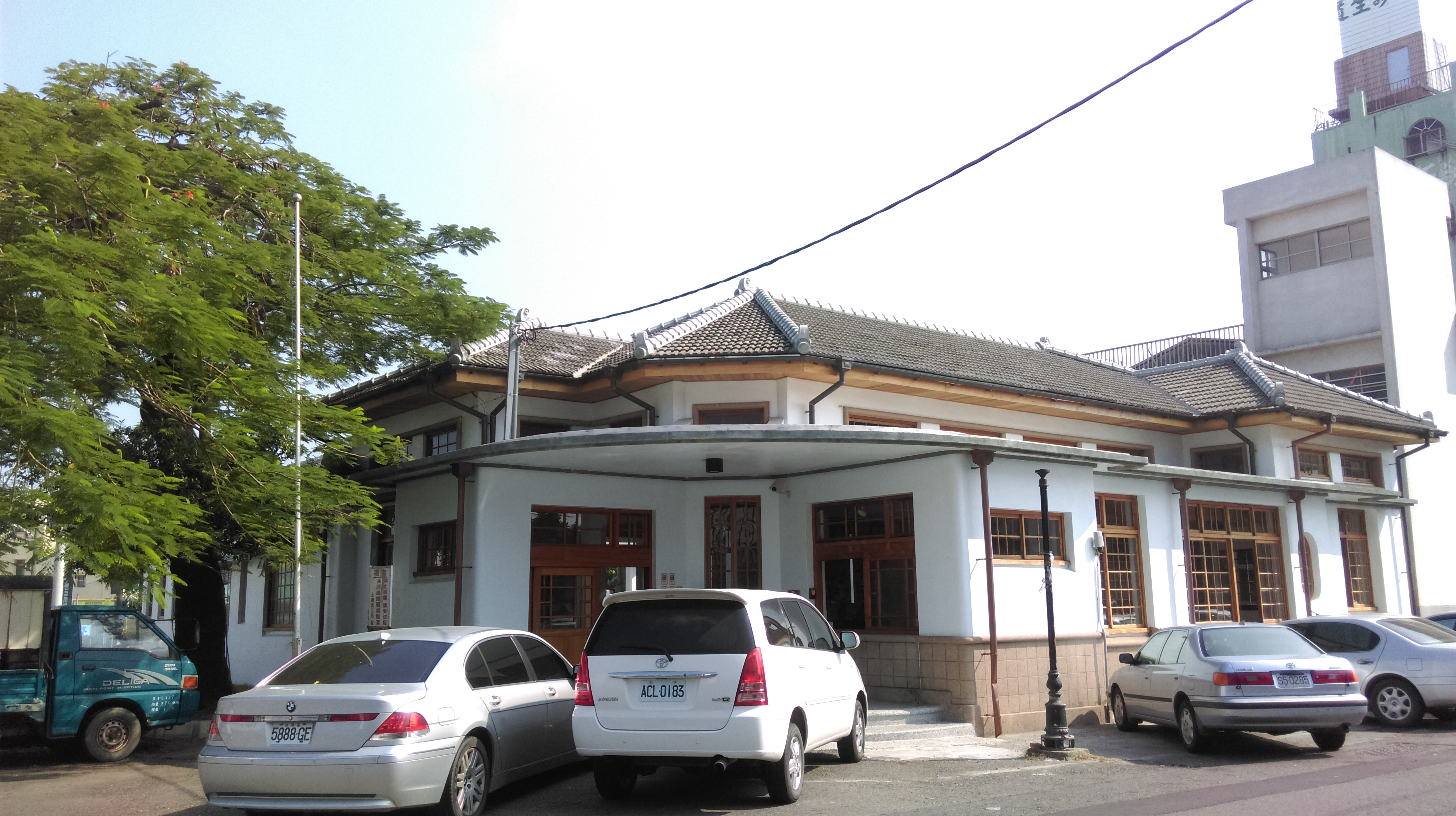 Old Tuku Township Office, the local people usually call it "Old Office", was built at 1934(Japanese colonial Period of Taiwan). It was built for administrative office of Tuku Township(Japanese:Tuku Sou), ROC(Taiwan) Government kept using after WWII, until the new office built.